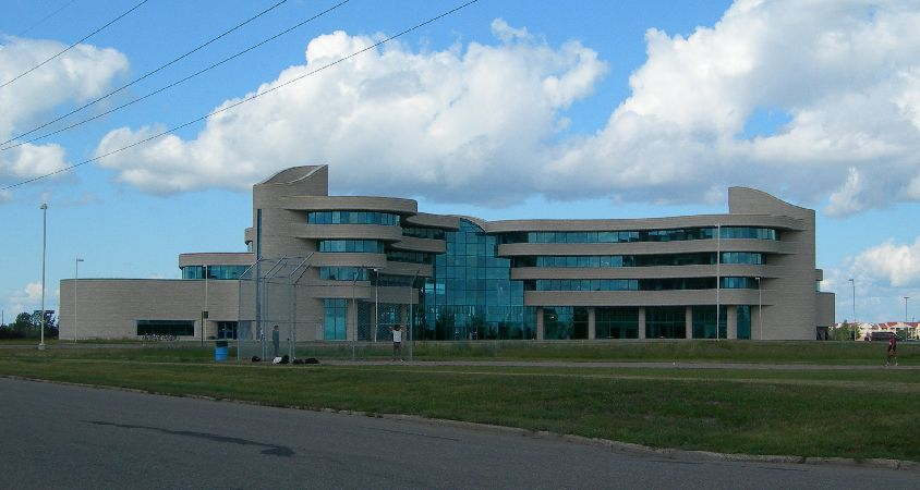 Self-made